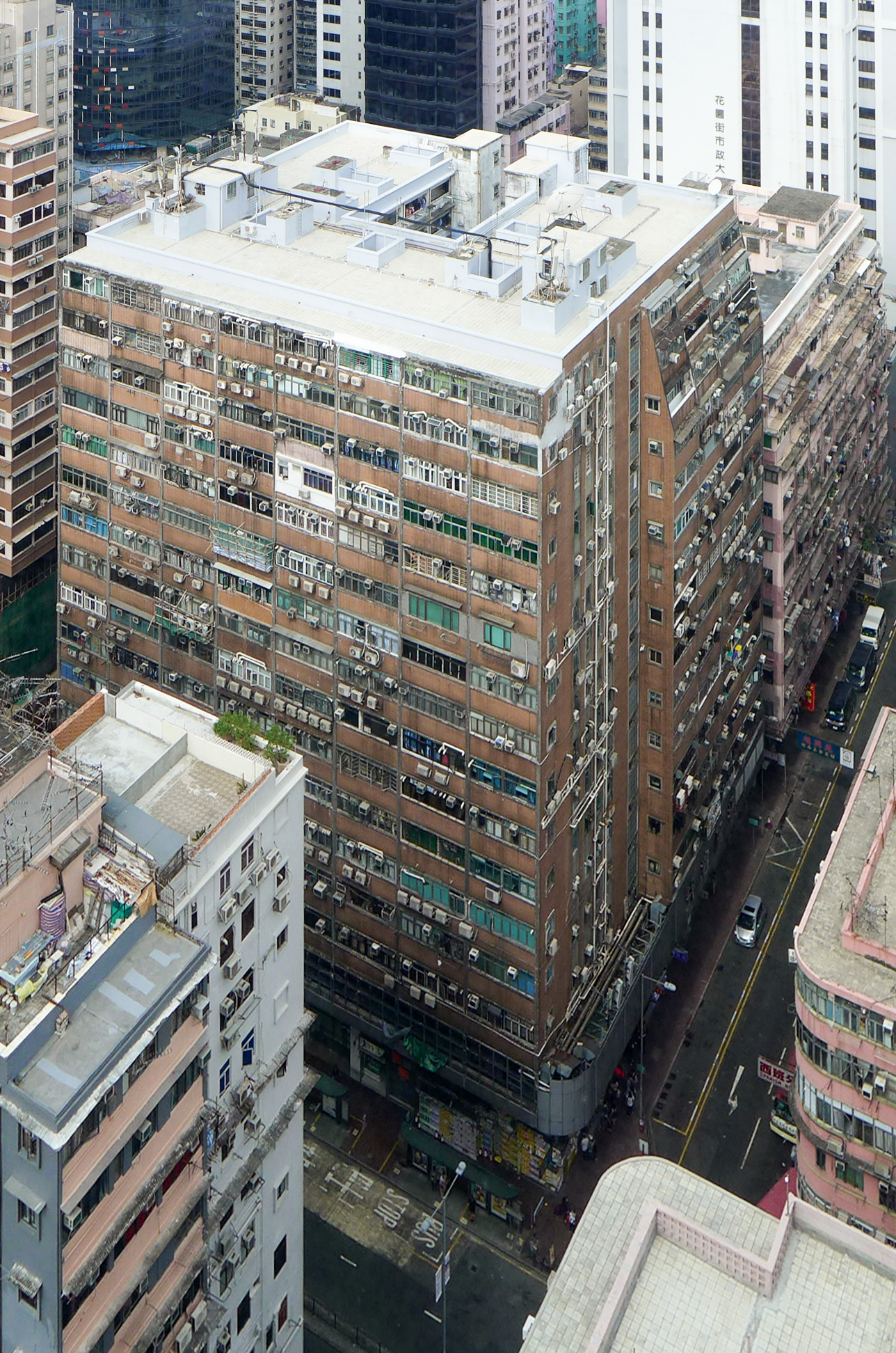 Sincere House